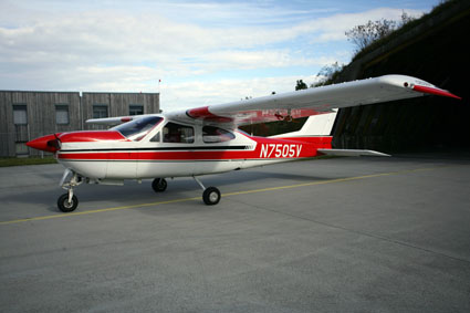 Cessna 177 RG "Cardinal" Cessna 177 RG "Cardinal"